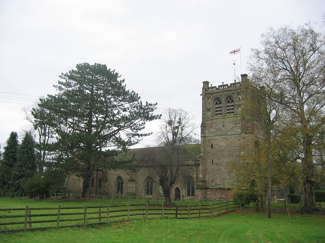 St Mary's Burford. Today Burford is the industrial "suburb" of Tenbury, one of the few places in South Shropshire that has escaped the planner's straight jacket. The original building with a very large church was some distance upstream along the Teme, and is now home to a renowned garden centre. This is the very southern tip of Shropshire, a long way south of Woore, just outside Stoke on Trent - at the other end - or the North Wales communities around Oswestry.